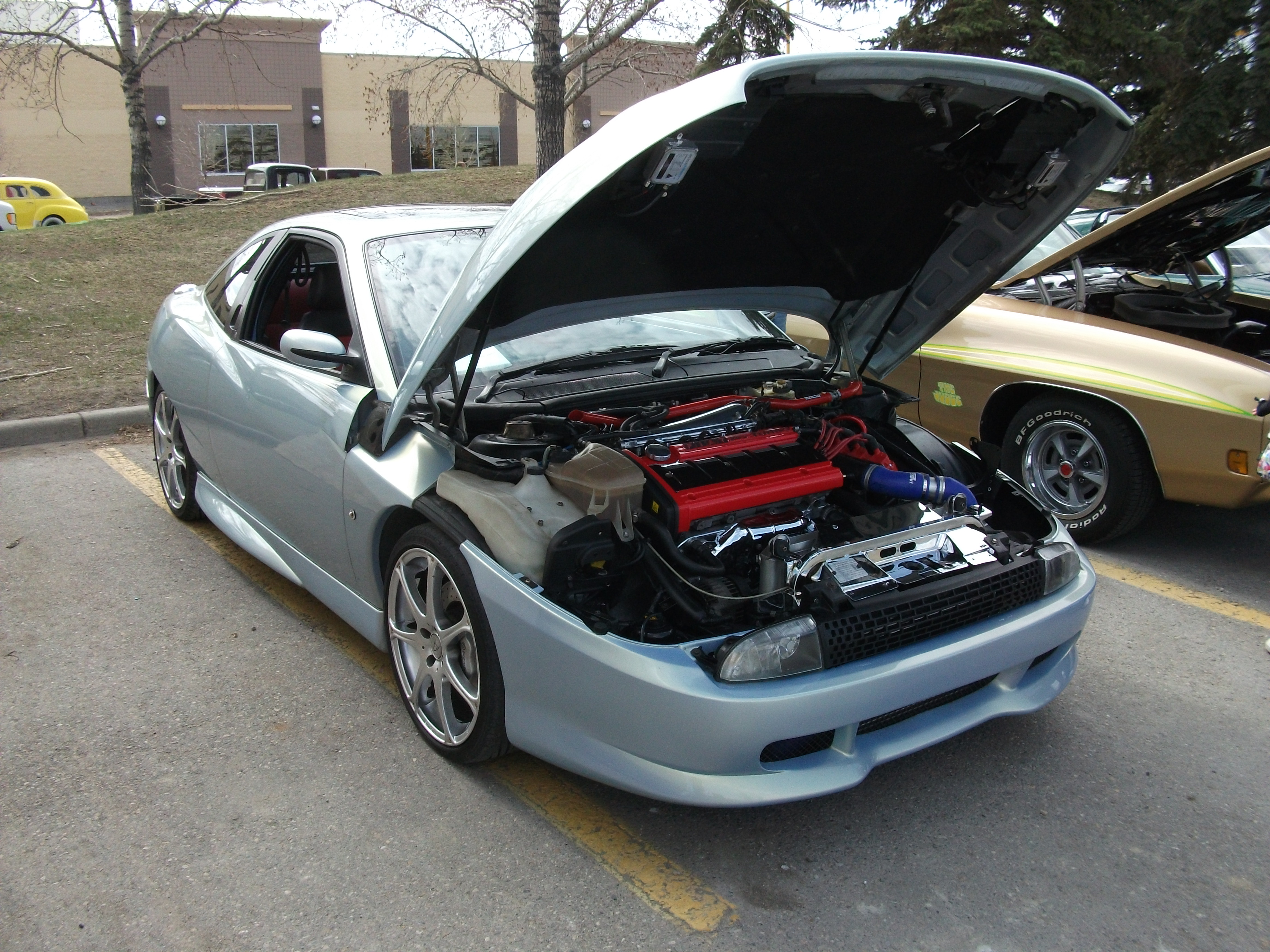 Interesting import this 1997 Fiat Coupe 20VT. First one I've seen in Canada.